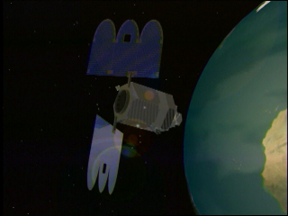 TOMS-EP (Total Ozone Mapping Spectrometer - Earth Probe) converted from original TIF to JPEG file